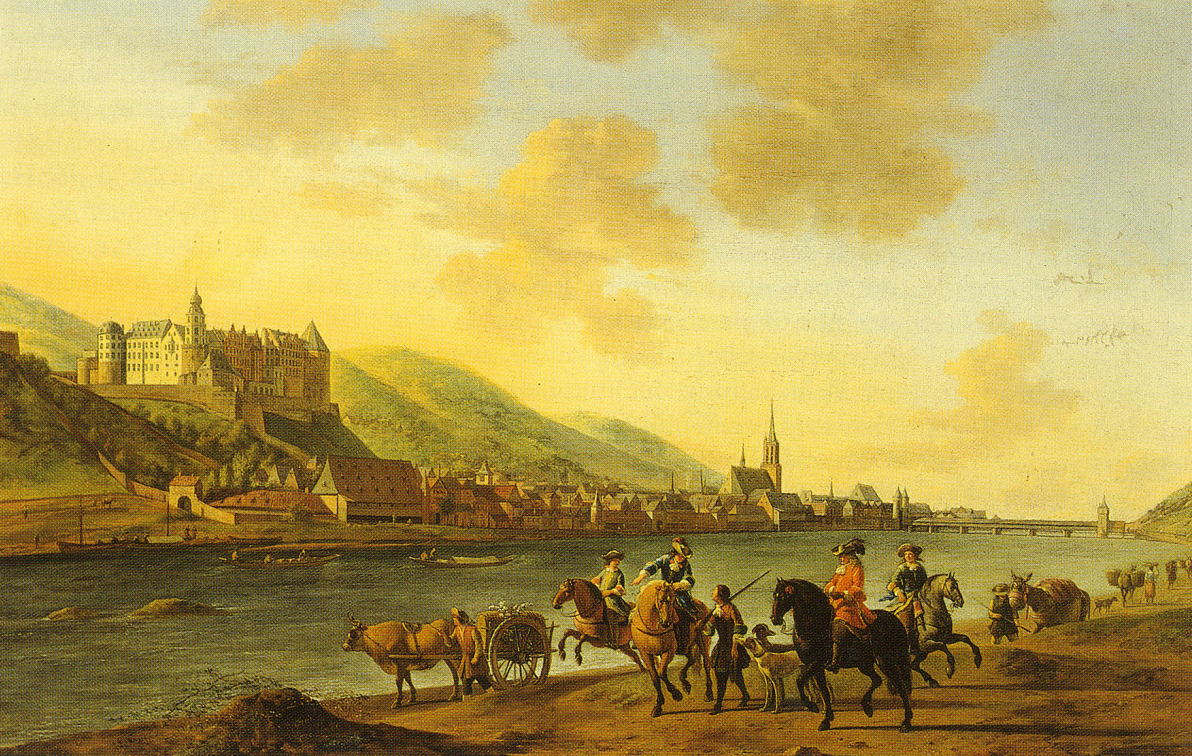 castle of Heidelberg, Germany